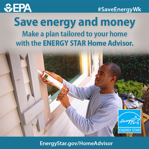 Want tailored recommendations for saving energy at your home? Our Energy Star Home Advisor can help. #SaveEnergyWk